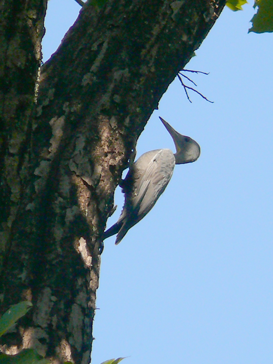 Great Slaty Woodpecker - Mulleripicus pulverulentus Uttarakhand